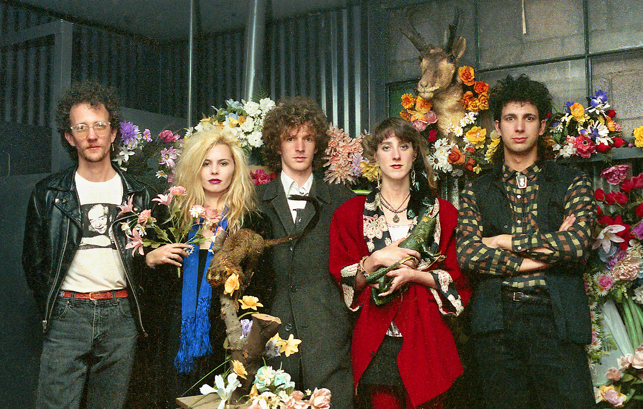 Game Theory 1988 Arizona Two Steps from the Middle Ages U.S. tour. Left to right: Gil Ray, Donnette Thayer, Scott Miller, Shelley LaFreniere, Guillaume Gassuan.